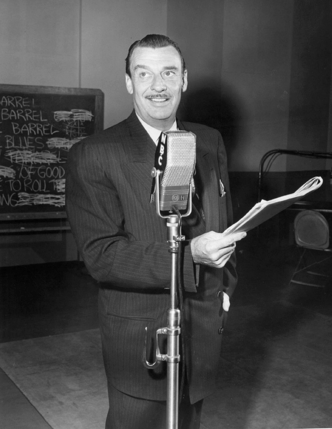 Photo of actor and radio personality Jimmy Wallington.